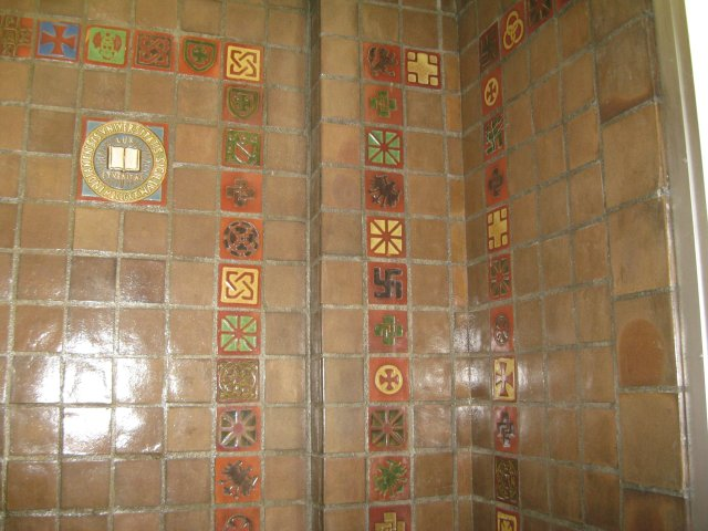 Photo of good luck symbols, including swastikas, in the HPER building (School of Health, Physical Education and Recreation) of Indiana University in Bloomington, Indiana.